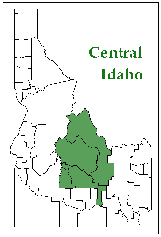 Map of Idaho with the Central Region highlighted